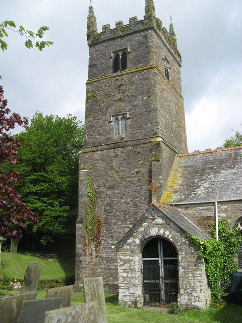 St Pinnock Church